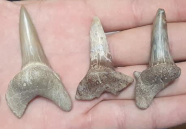 C. simplicatus eagle ford group texas, Found by Matthew Harrell